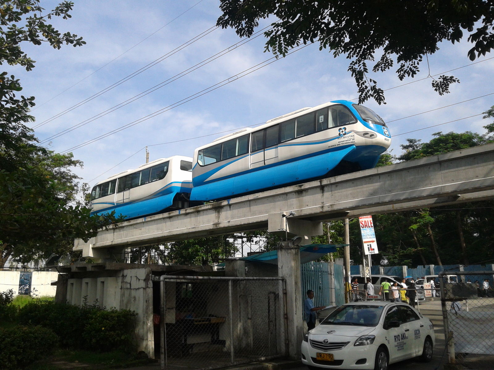 Elevated agt train in Bicutan, Taguig